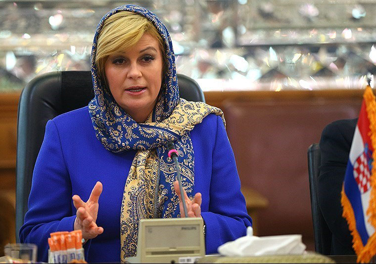 Kolinda Grabar-Kitarović in meeting with Ali Larijani, spokeman of Islamic Consultative Assembly (Parliament of Iran).